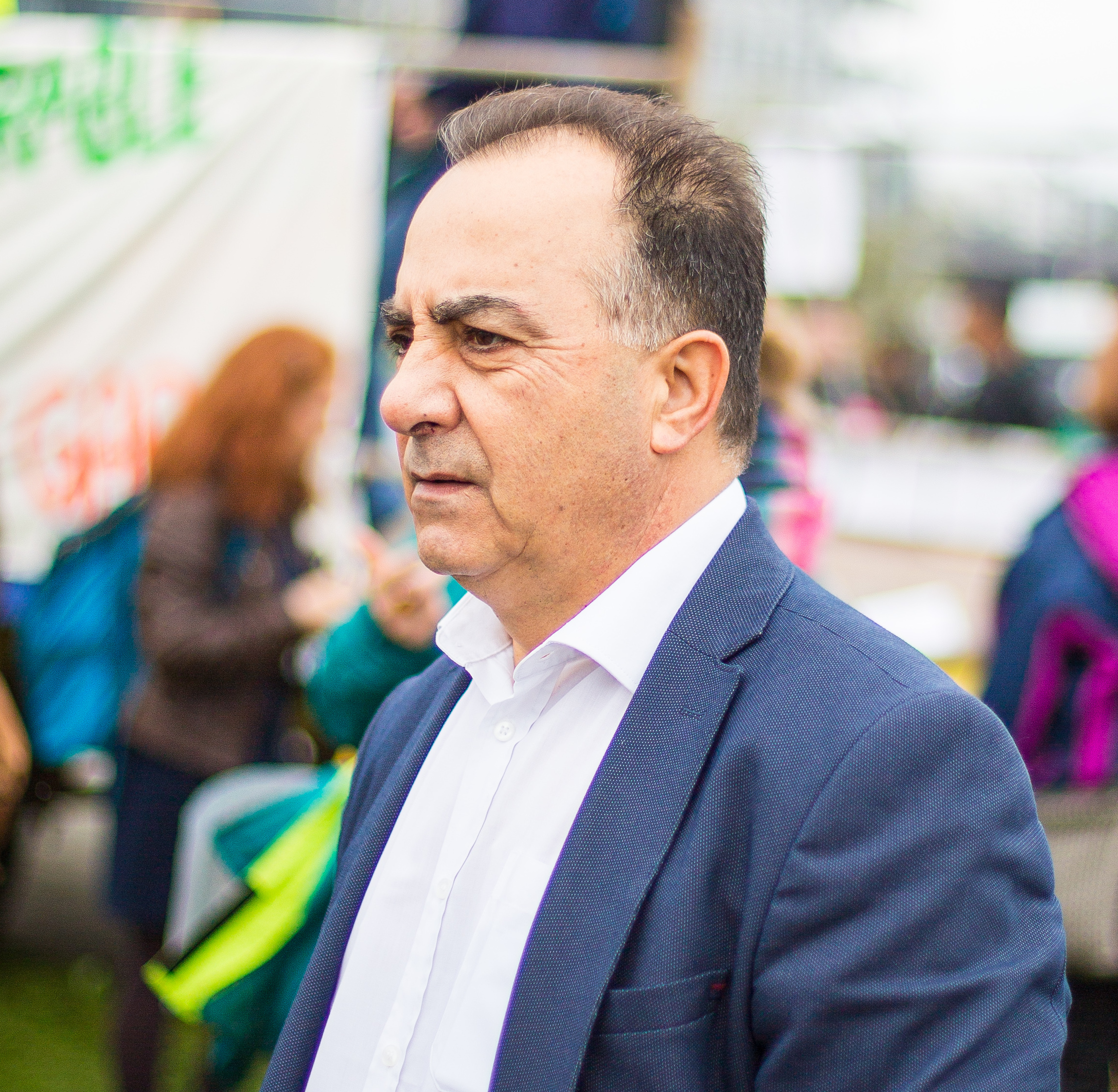 in the context of the reform of the CAP, an important citizen mobilization took place in Strasbourg to oppose the current project and demand a fairer, healthier, more sustainable Common agricultural policy !